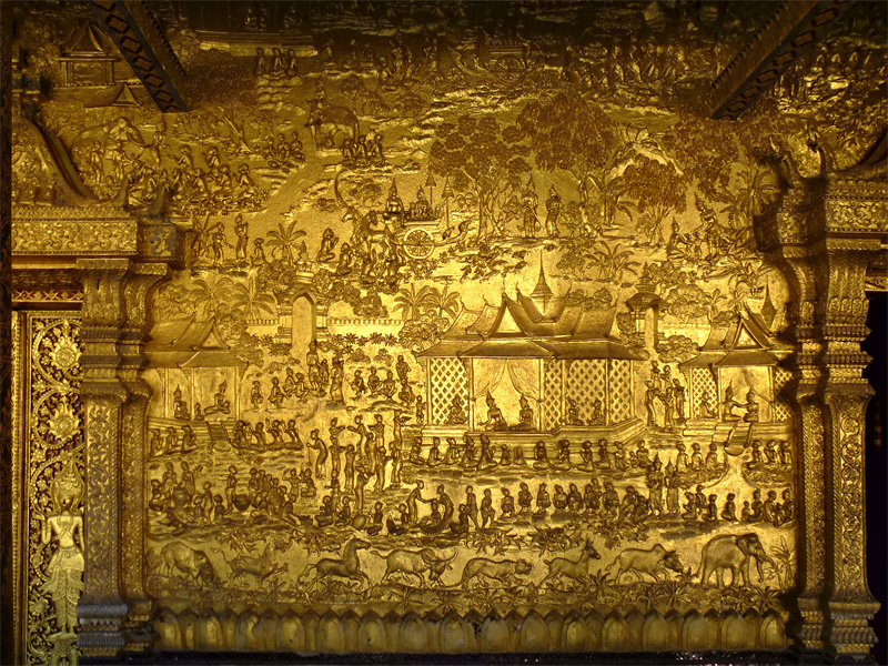 Vat May Souvannapoumaram, Luang Prabang, Laos.